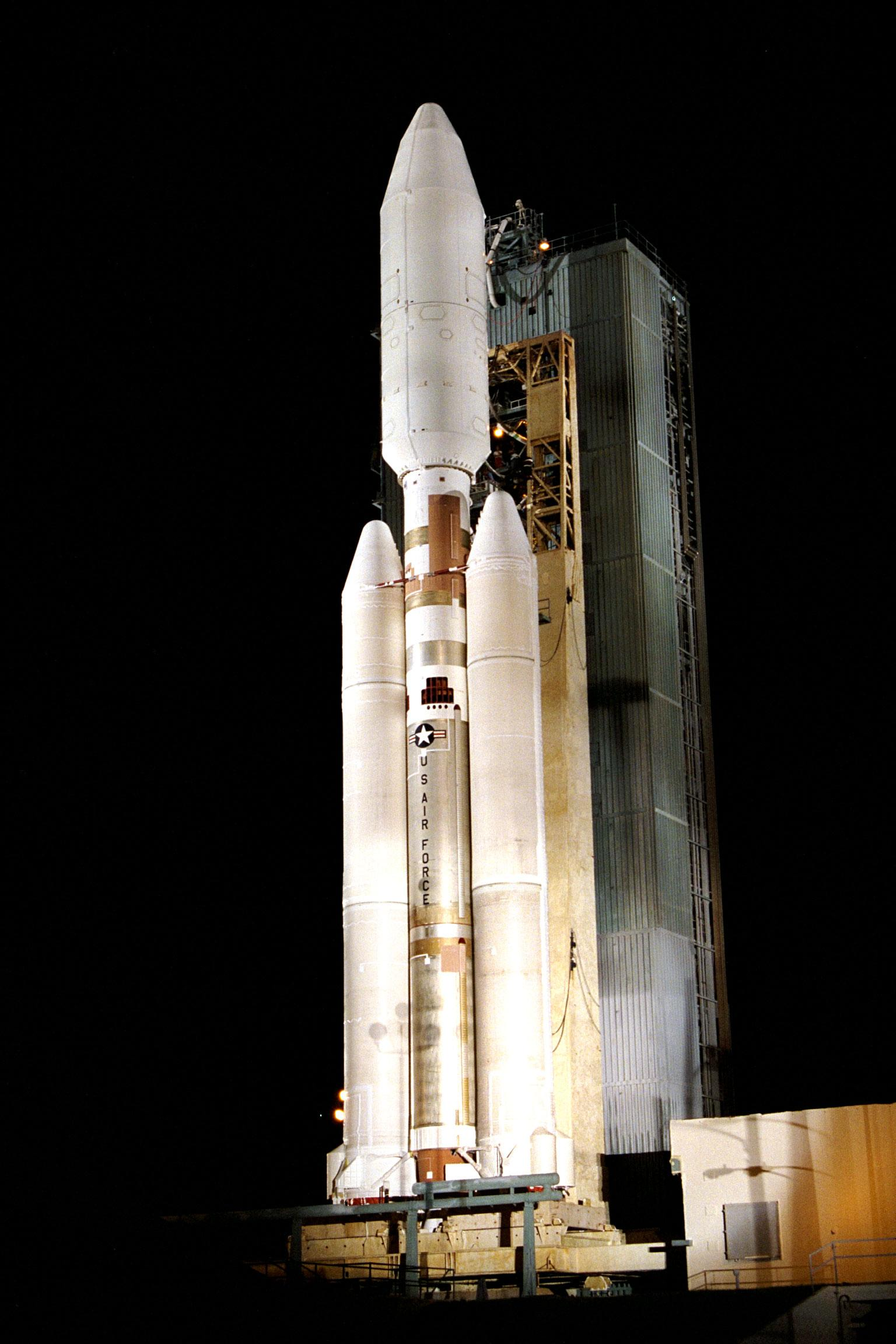 Orginal relase with the picture: At Launch Complex 40 on Cape Canaveral Air Station, the Mobile Service Tower has been retracted away from the Titan IVB/Centaur carrying the Cassini spacecraft and its attached Huygens probe. This is the second launch attempt for the Saturn-bound mission; a first try Oct. 13 was scrubbed primarily due to concerns about upper level wind conditions. Liftoff Oct. 15 is set to occur during a launch window opening at 4:43 a.m. EDT and extending until 7:03 a.m. Clearly visible in this view are the 66-foot-tall, 17-foot-wide payload fairing atop the vehicle, in which Cassini and the attached Centaur stage are encased, the two-stage liquid propellant core vehicle, and the twin 112-foot long solid rocket motor upgrades (SRMUs) straddling the core vehicle. It is the SRMUs which ignite first to begin the launch sequence.